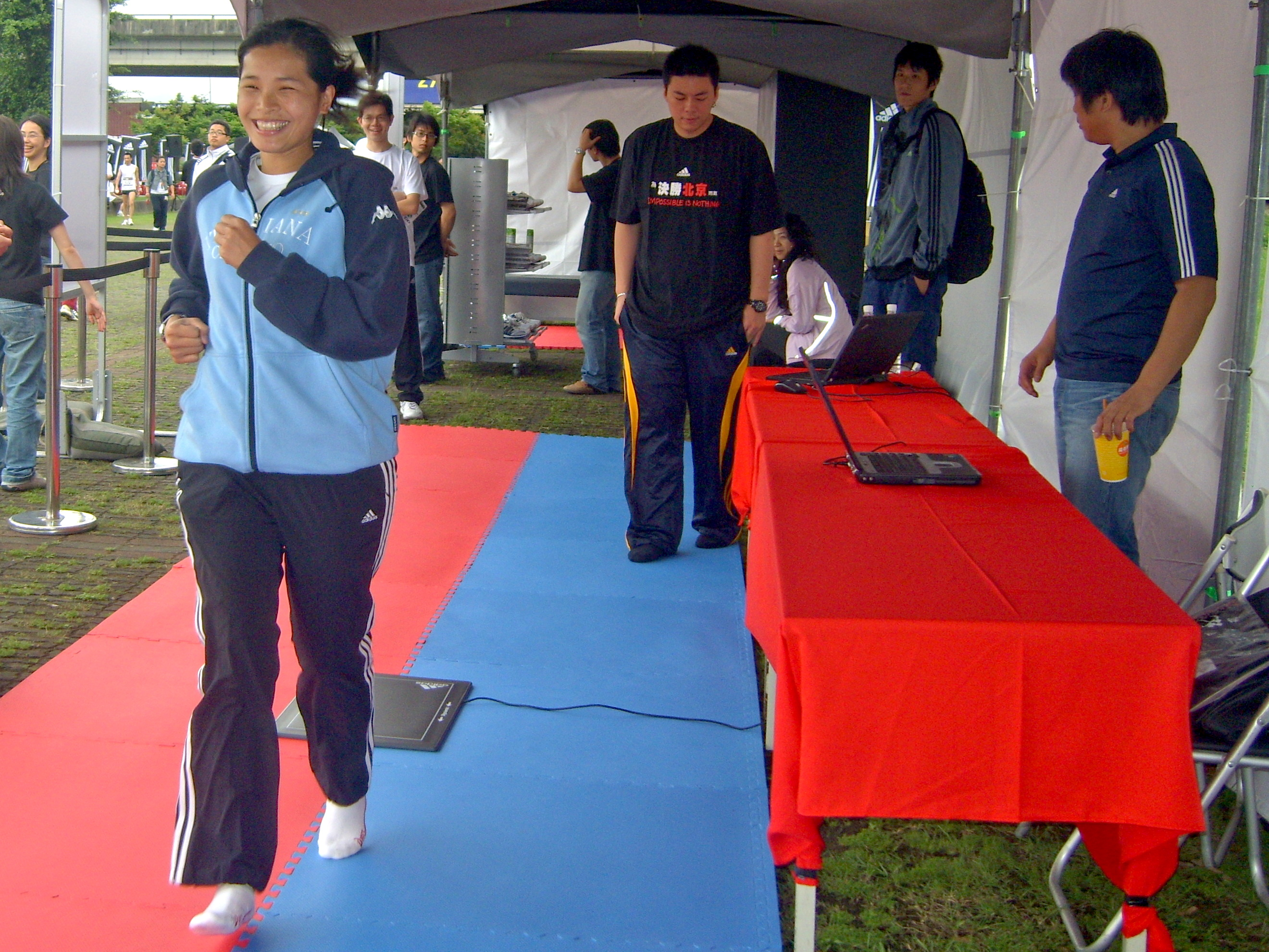 Adidas Run For 2008 Olympics in Taiwan: Footscan Booth.